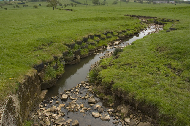 River Loud from Houghclough Lane